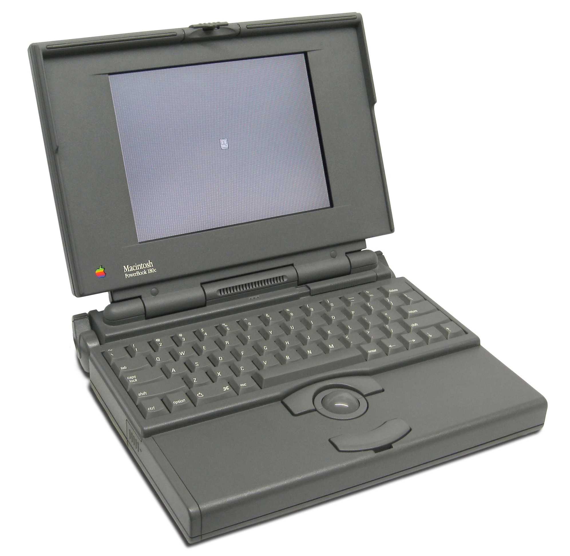 Apple Macintosh PowerBook 180c laptop computer (circa 1993). Note the "Happy Mac" symbol on display.